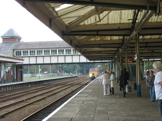 The 1414 ex-Holyhead Virgin Train to London approaching Platform 1 This train, which stretches the full length of the station, arrives at London Euston at 1822. It stops at Bangor, Llandudno Junction, Chester, Crewe, and Milton Keynes Central. On the Holyhead-Crewe stretch the pendolino train is pulled by a tractor (not of the agricultural variety).